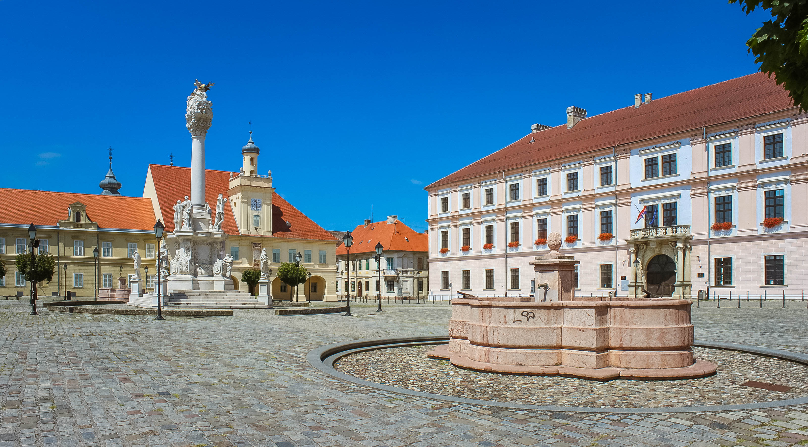 Square